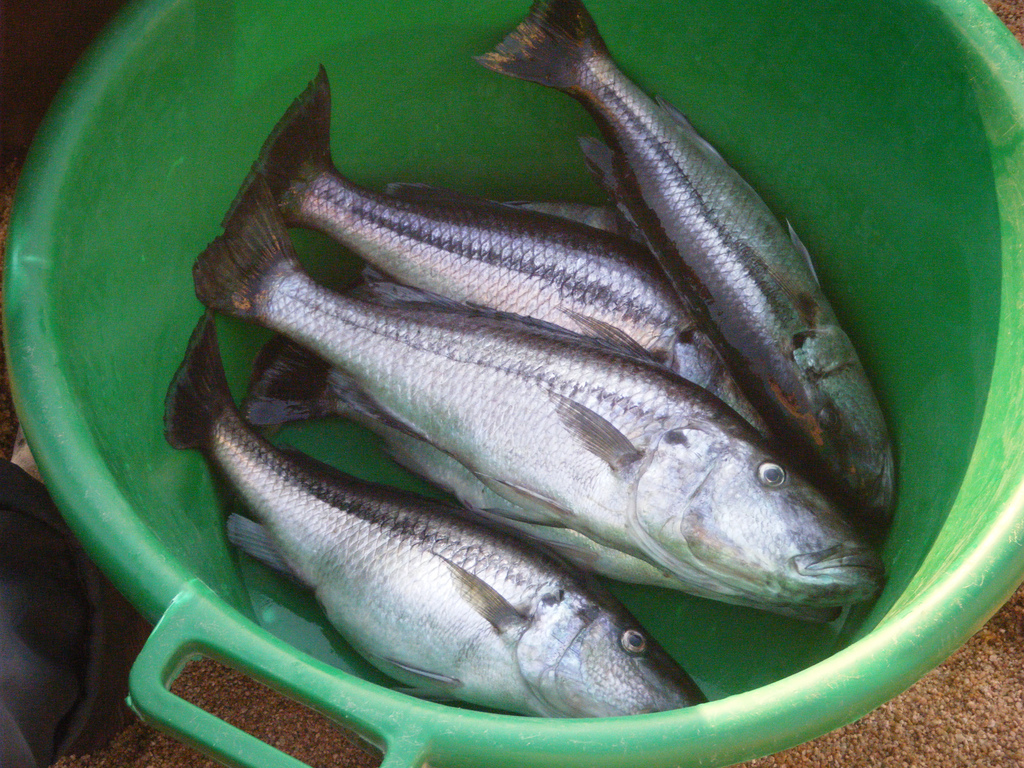 Rhamphochromis, Location: Likoma Island